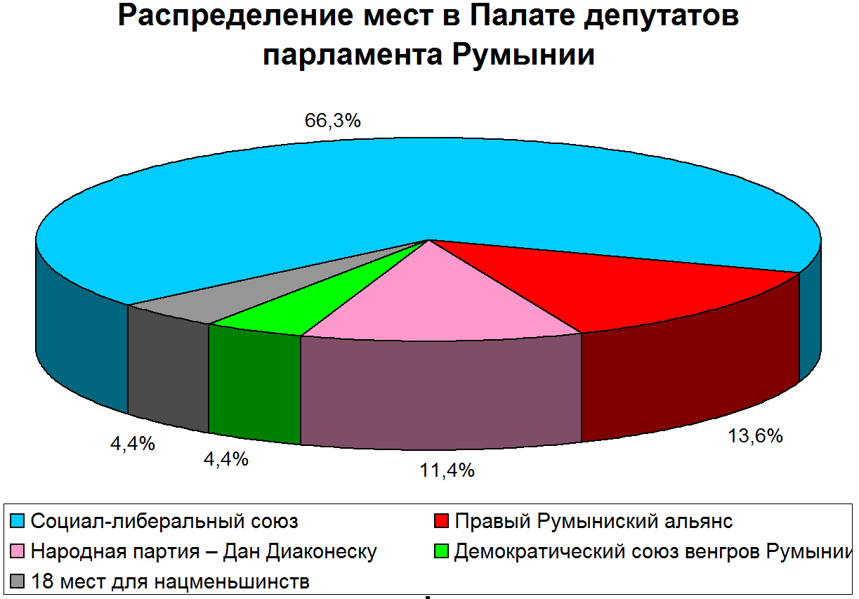 Structure of the Romanian Chamber of Deputes after the 9th December elections